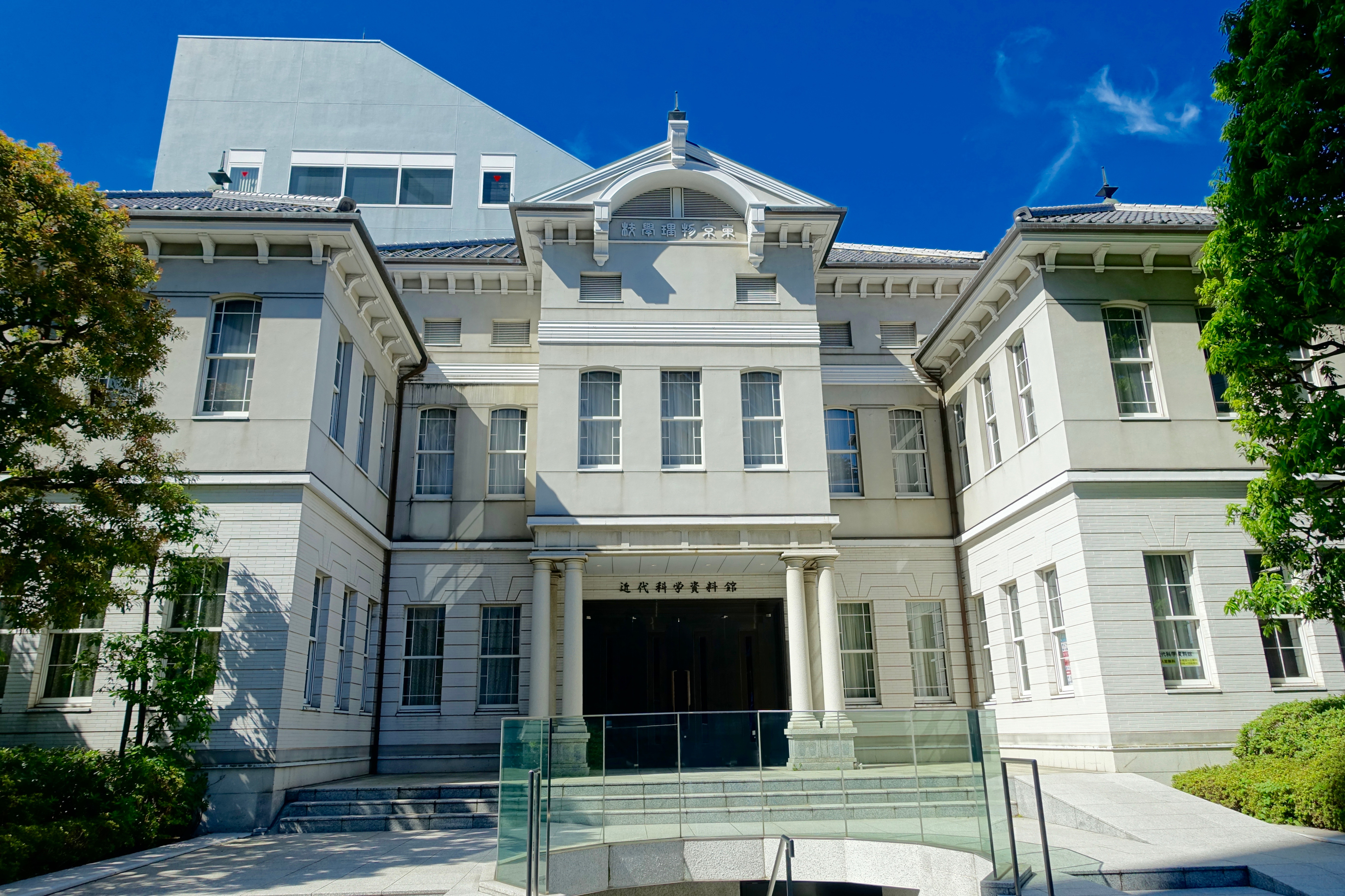 Ridai Museum of Modern Science - Tokyo, Japan.